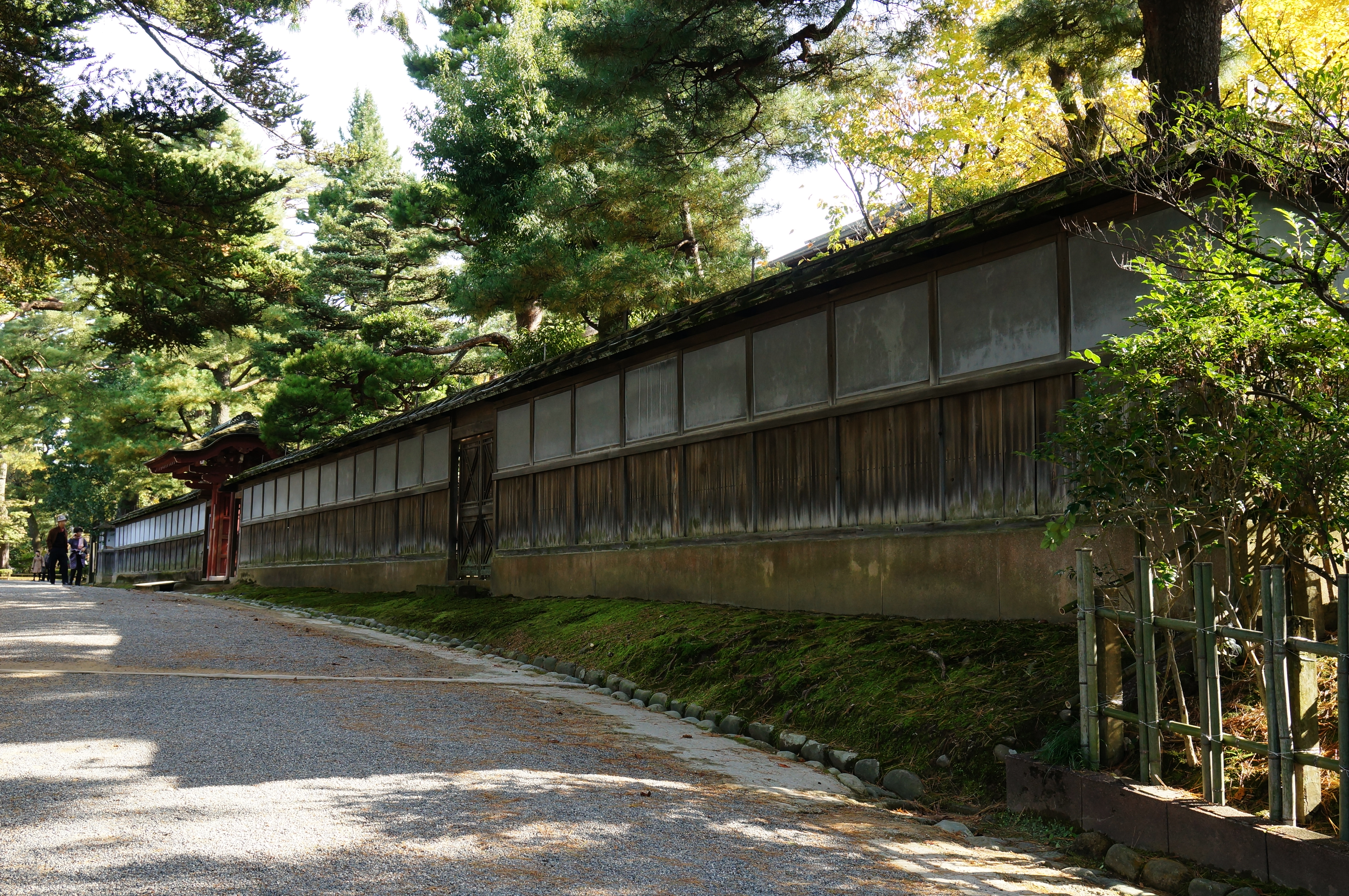 At Seisonkaku in Kanazawa, Ishikawa prefecture, Japan.